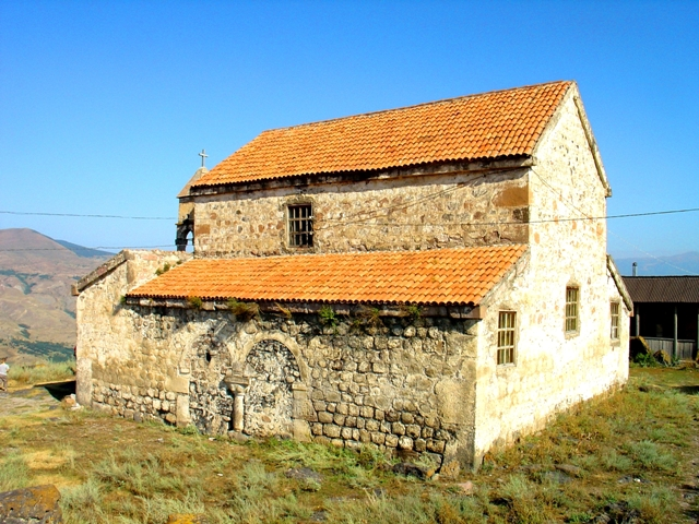 St. Archangel Church in Saro, Georgia.